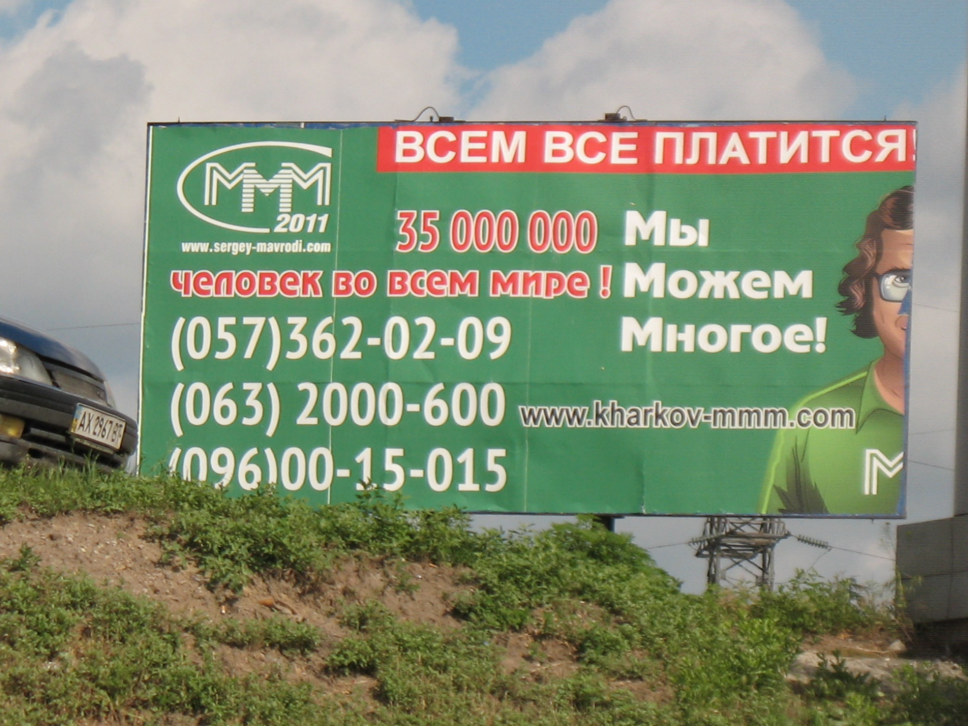 Kharkov Ring Road. Billboard of Sergej Mavrodi's MMM-2011 project.